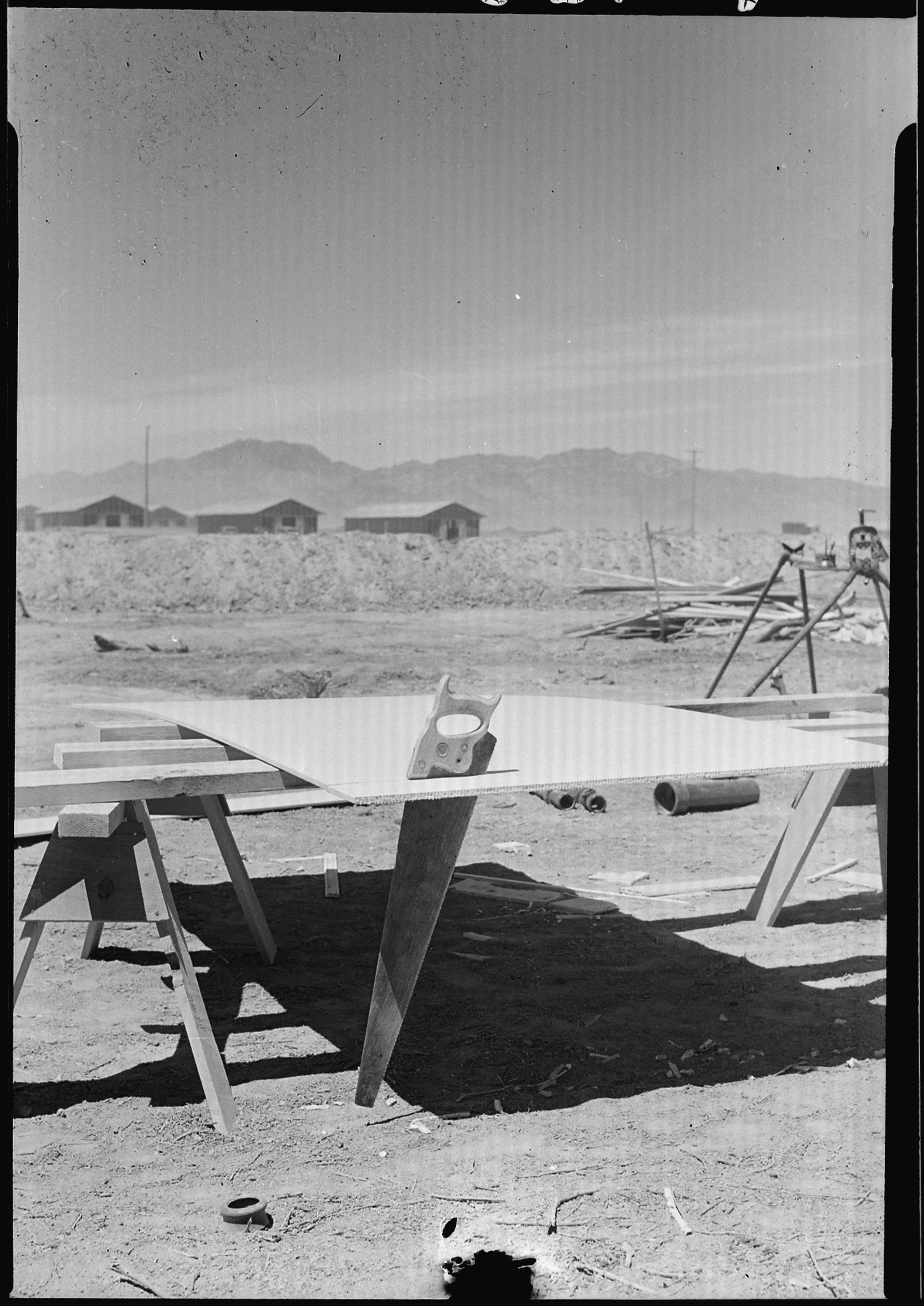 Scope and content: The full caption for this photograph reads: Poston, Arizona. Sawing celotex which is used in the construction of barracks for evacuees at this War Relocation Authority center.